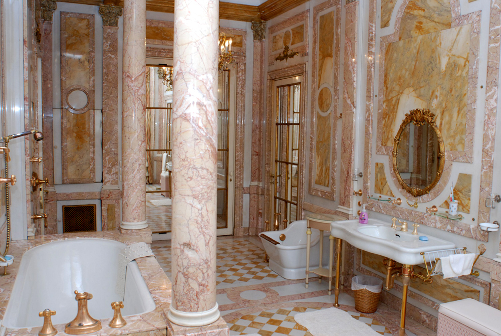 The Residence of the U.S. Ambassador in Prague’s Bubeneč was built by Otto Petschek in 1924—30. Bathroom.